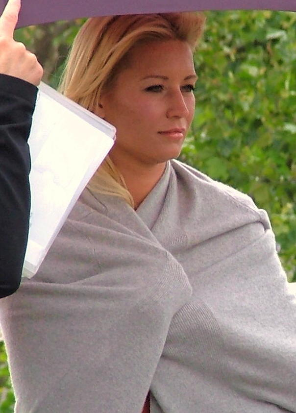 Denise van Outen filming for a Morrisons advert on Waterloo Bridge.Denise Van Outen - Waterloo Bridge, London, England - Wednesday June 20th 2007